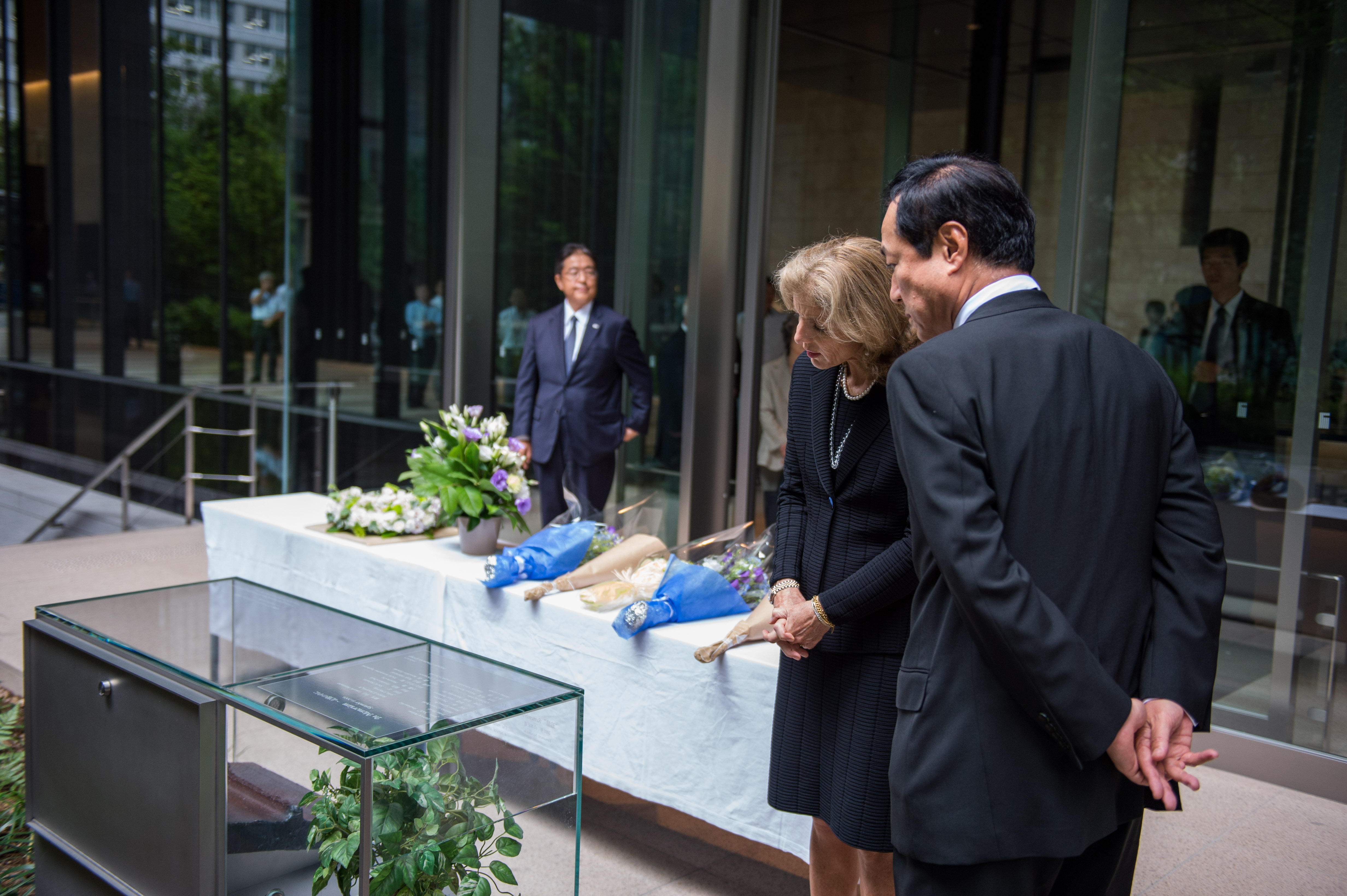 Caroline Kennedy, Ambassador to Japan, and Yasuhiro Satō, President of the Mizuho Financial Group, Inc., prayed for the victims of the September 11 attacks in front of the memorial at the Ōtemachi no Mori, Otemachi Tower in Chiyoda Ward, Tōkyō Metropolis on September 10, 2014.